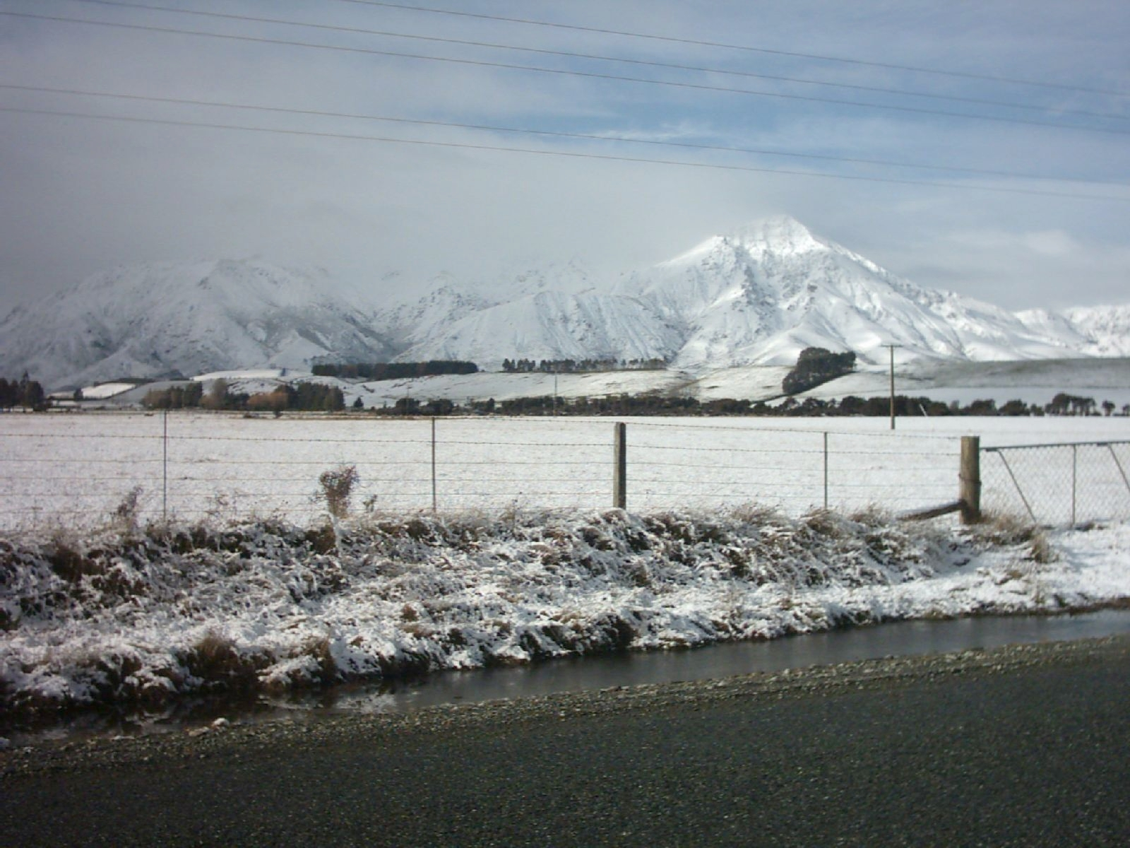 A winter landscape in western Southland, New Zealand somewhere on the road, between the coast in the west of Invercargill and Te Anau. Looking west.